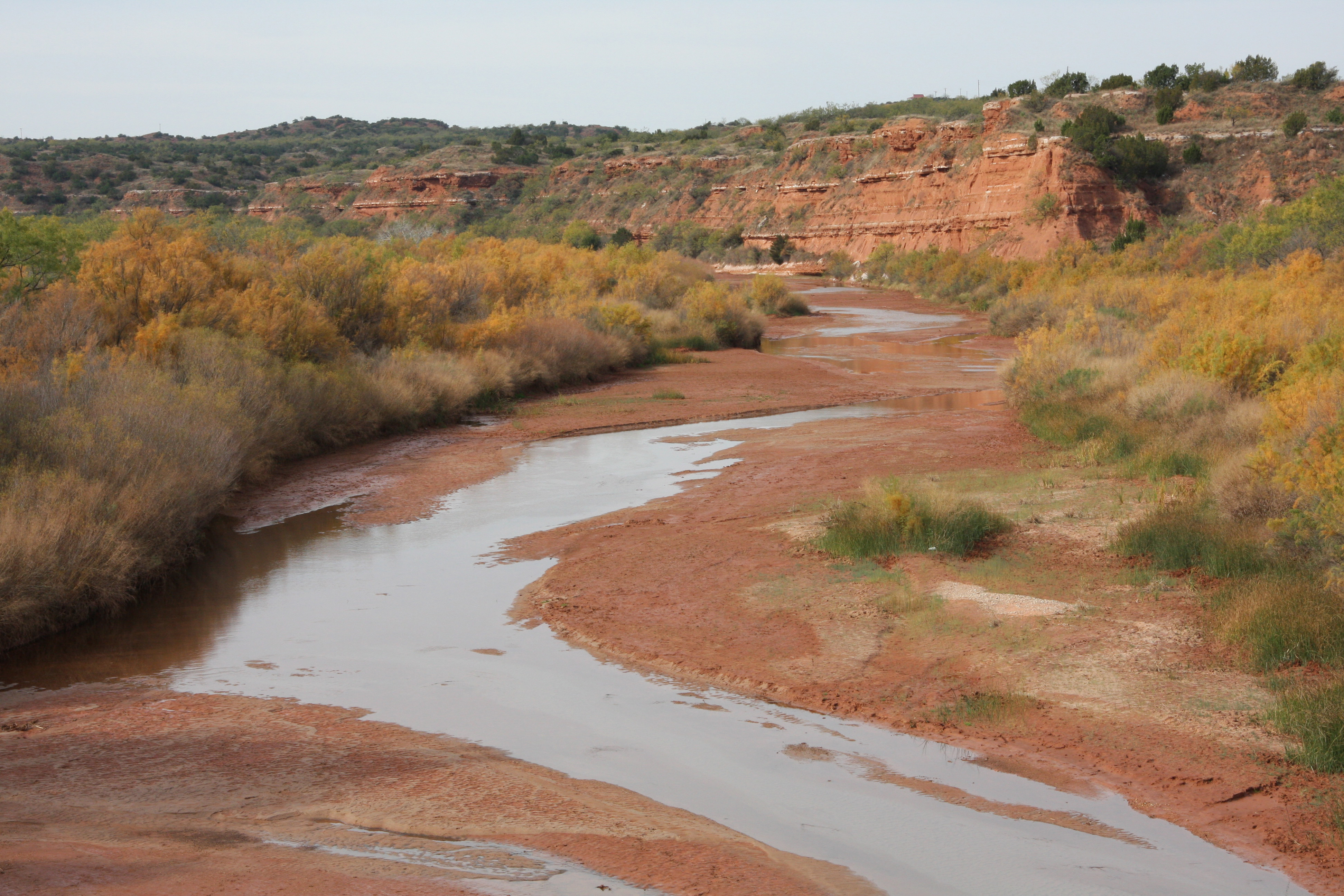 Double Mountain Fork Brazos River — a tributary of the Brazos River, in the Llano Estacado region, Fisher County, West Texas. View 9 km north of Rotan (Fisher County), and 15 km south of Double Mountains (Stonewall County).